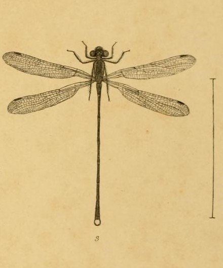 I 13:LaPETALUPvA,CAP.0VEI 2.C0RDULIA SMITHII . 3. AGRION COLENSONIS 4, 5. FORFICULA LITTOREA. 6. PHASMA HOOKERI